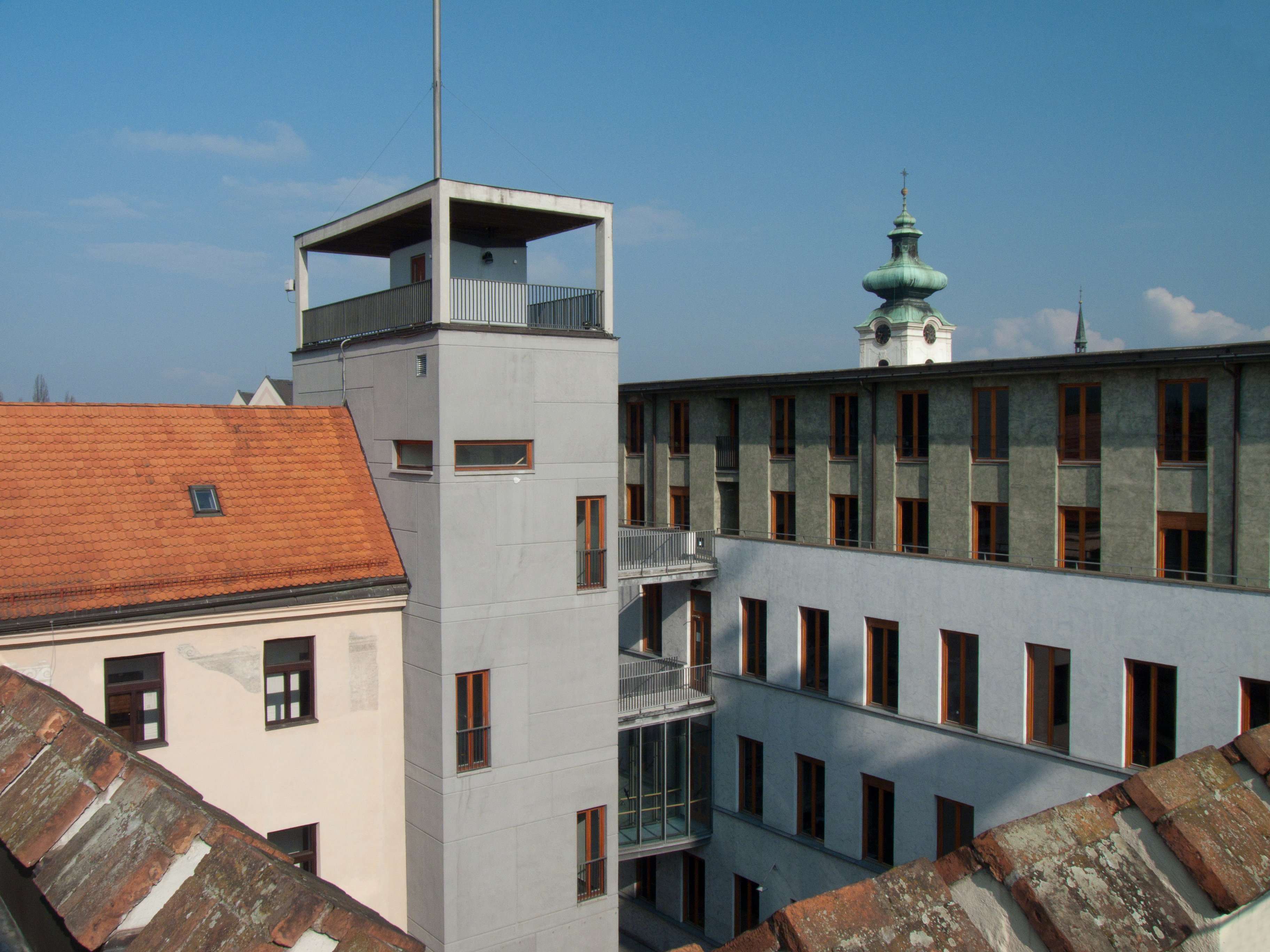 New building of the town hall in České Budějovice, Czech Republic, opened in 2000